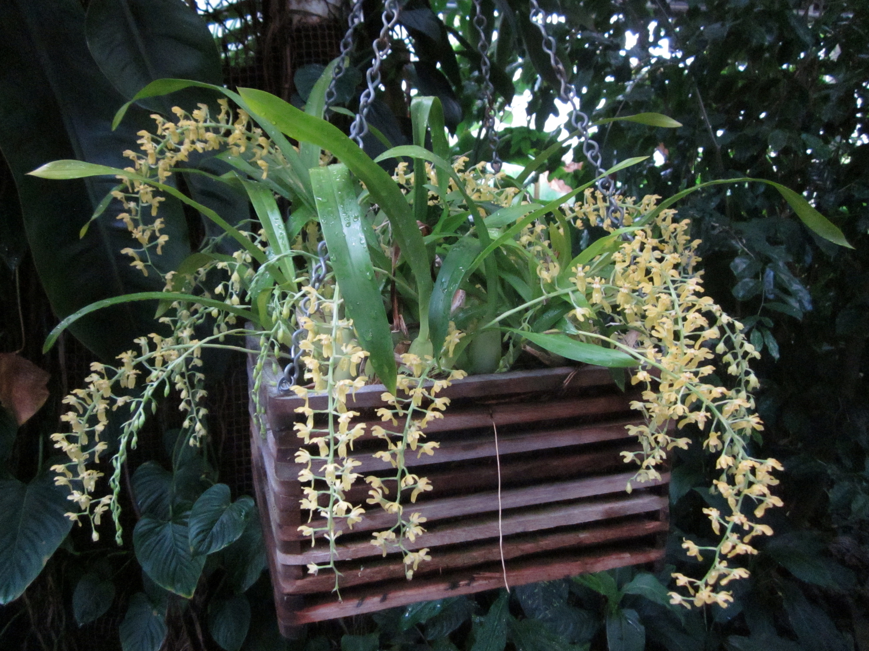 Flowering Gomesa brasiliensis at the University of Cambridge Botanic Gardens, United Kingdom